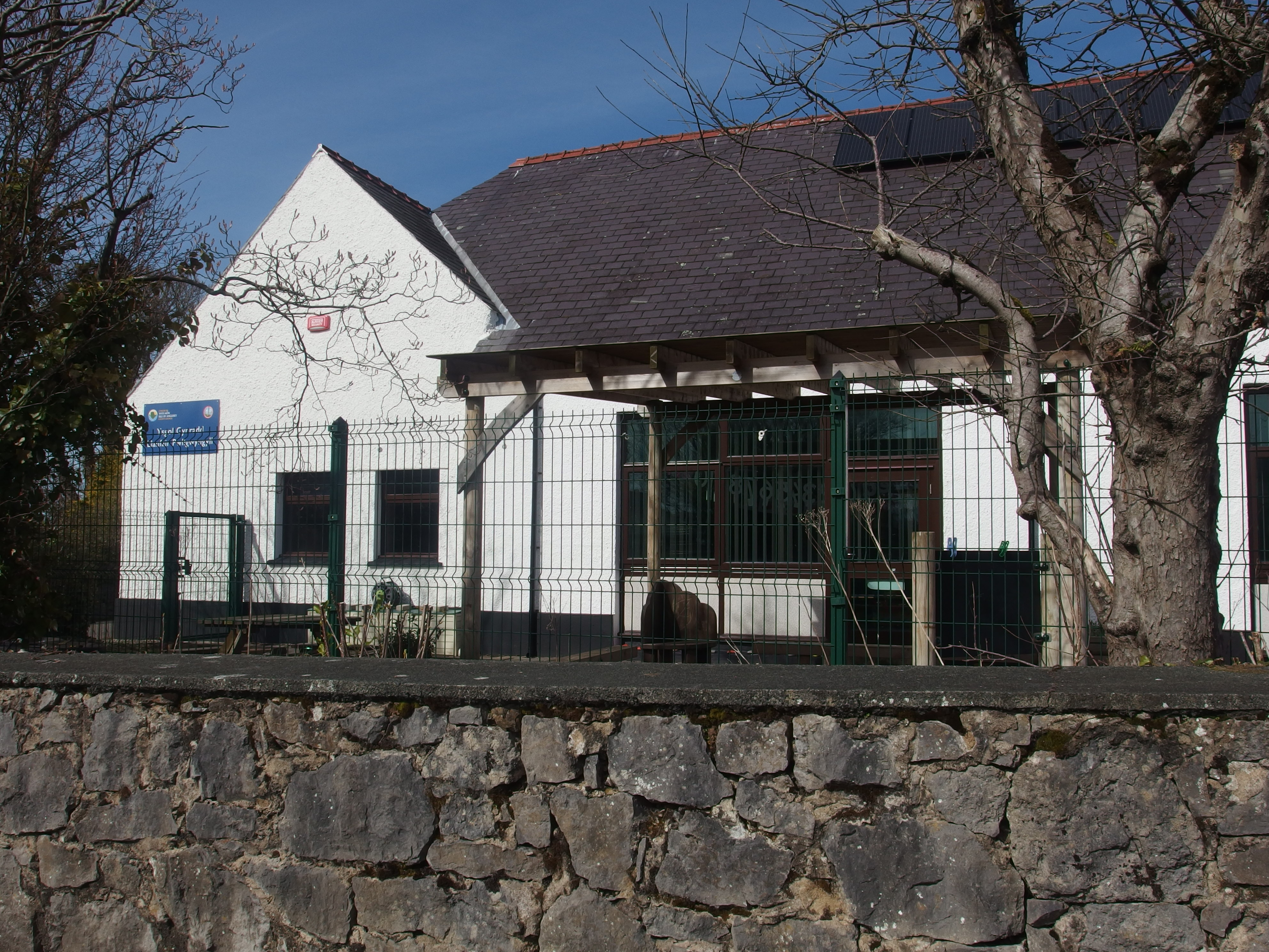 llun o ysgol Llanfairpwll, Llanfairpwllgwyngyll, Ynys Mon